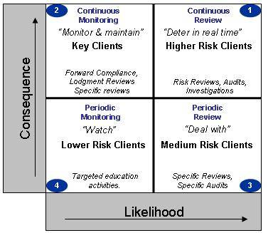 Quadrant compliance framework